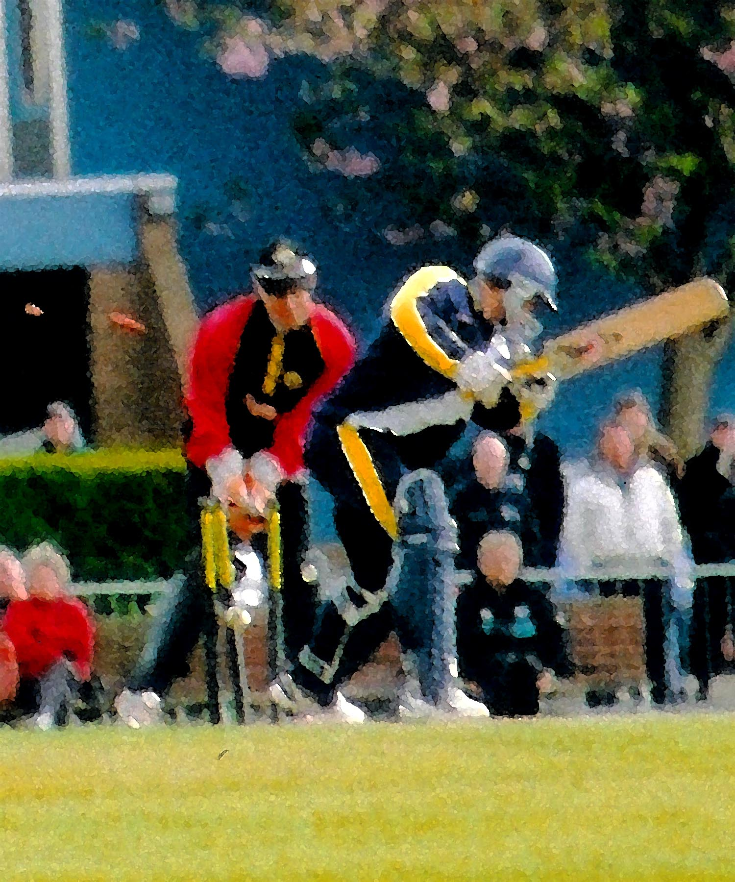 Scotland batsman Jonathan Beukes' dismissal v Kent, May 2005. Watercolour effect by original author.